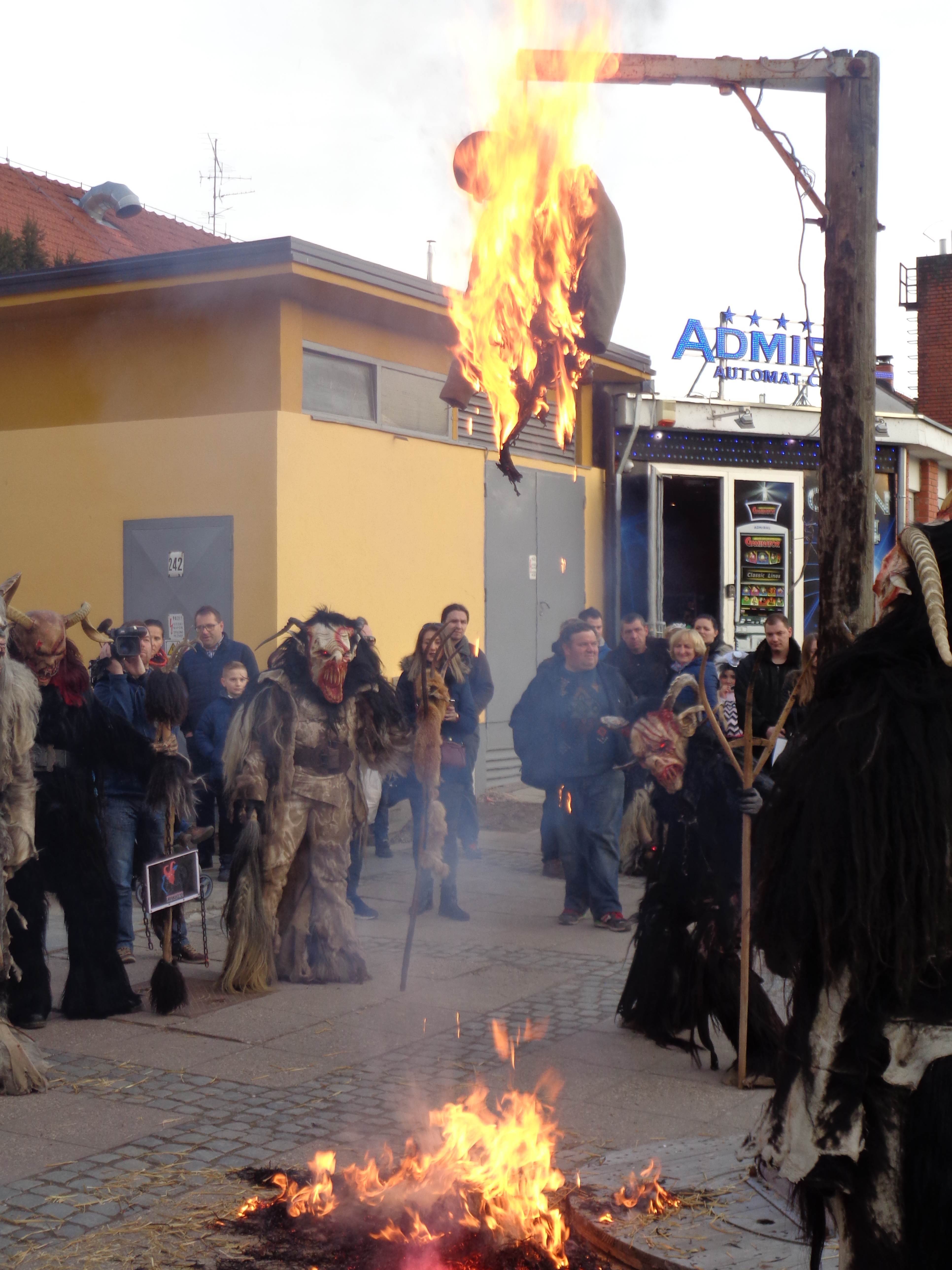 Medjimurje Carnival 2017 (Croatia) - Carnival evil man burning